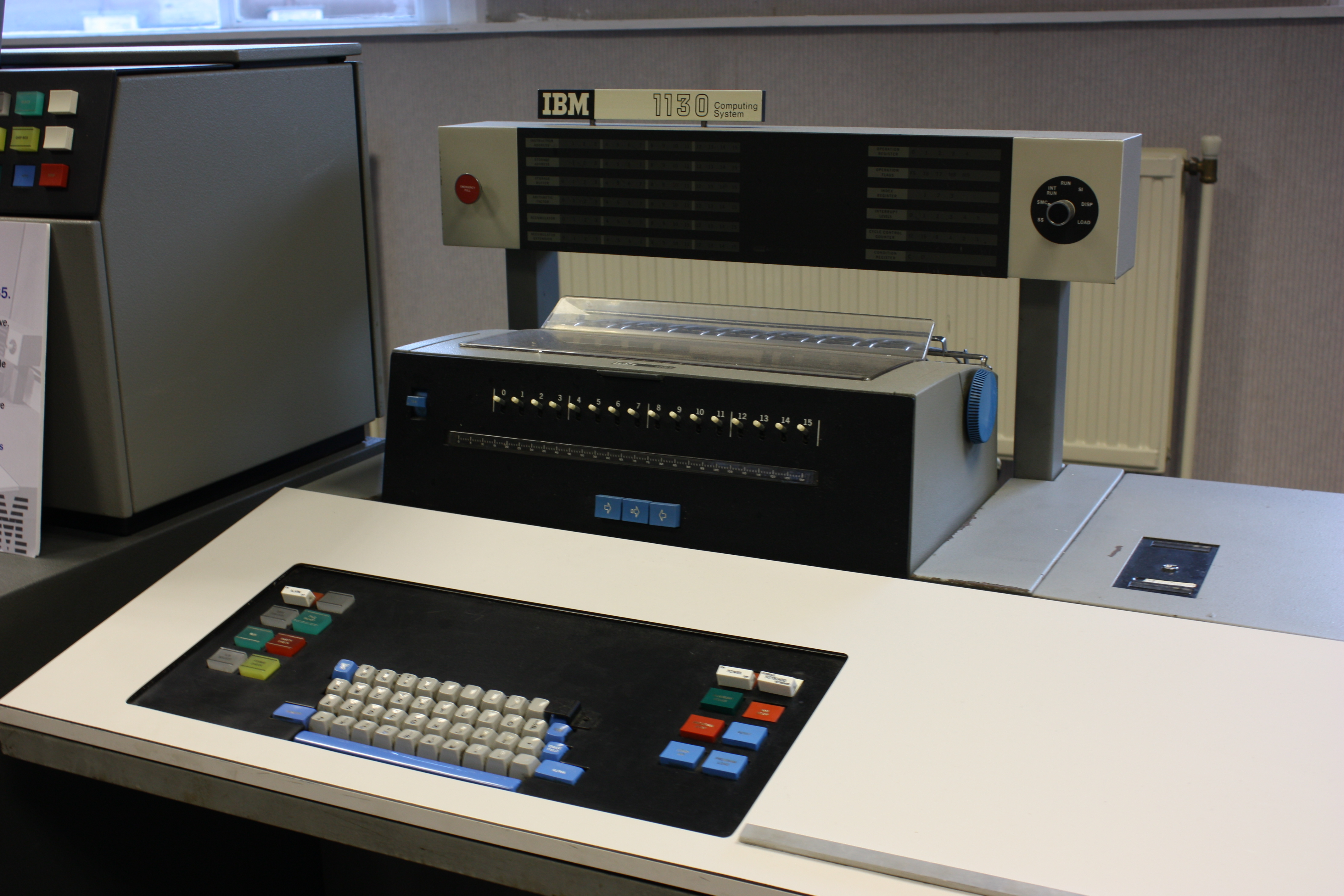 An IBM 1130 system which was the least expensive IBM system when it was introduced in 1965.